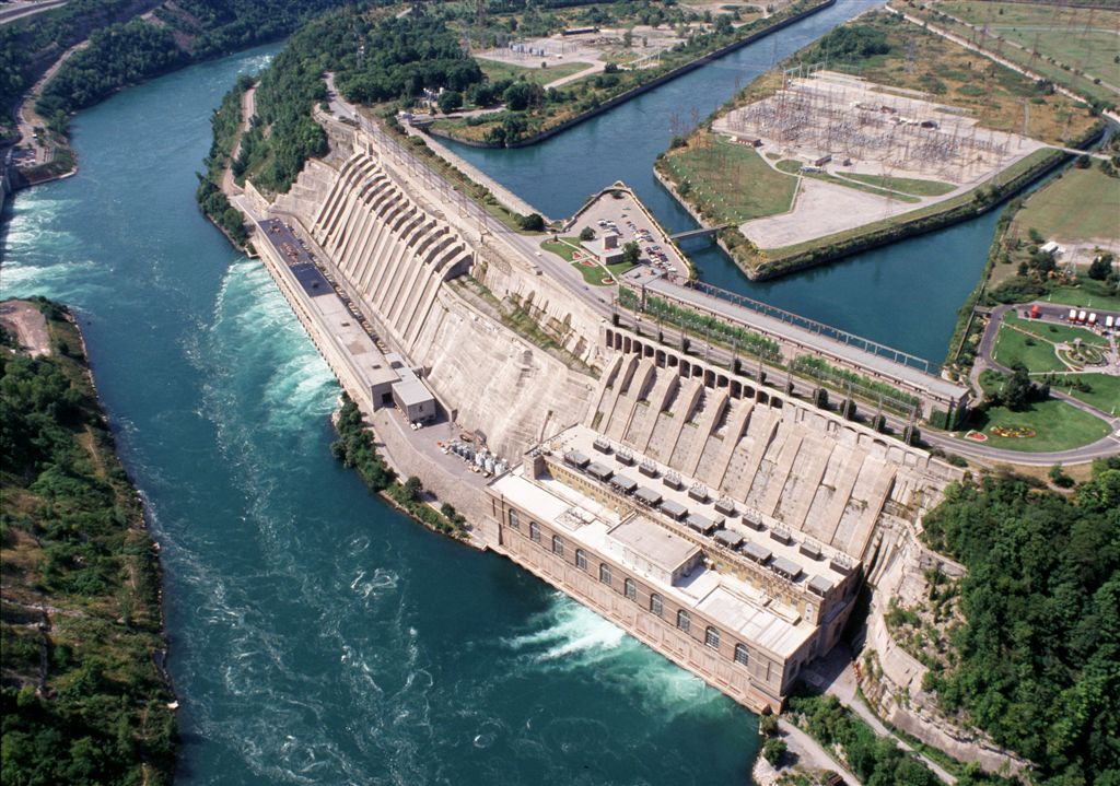 Ontario Power Generation's Sir Adam Beck Generating Complex. The largest source of Hydroelectric power in Ontario.